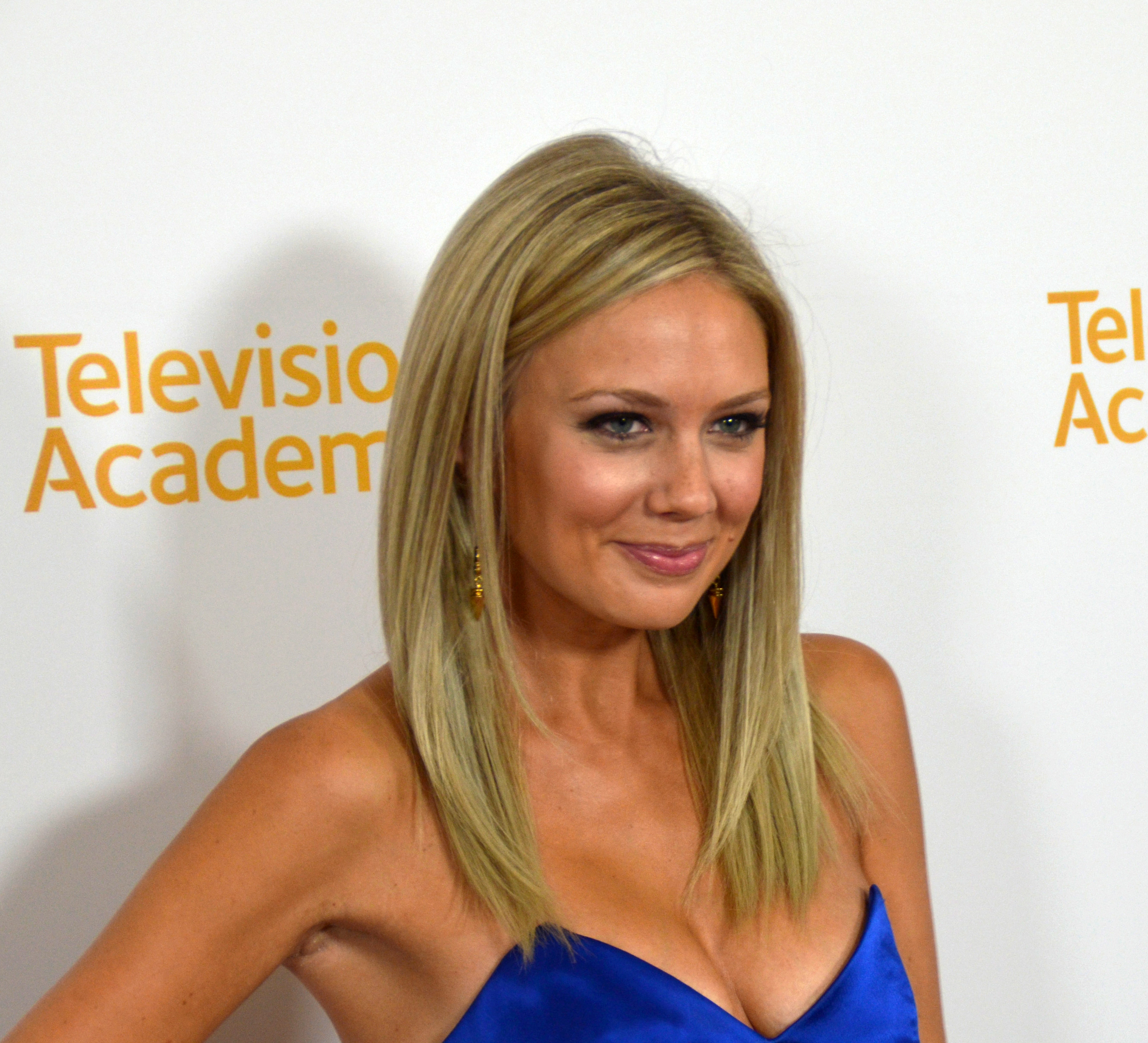 Melissa Ordway Mingle Media TV and Red Carpet Report host Ashley Harrington were invited to cover the 2014 Daytime Emmy® Awards Nominees Cocktail Reception Hosted by the Television Academy’s Daytime Programming Peer Group Governors at the London West Hotel in Hollywood.